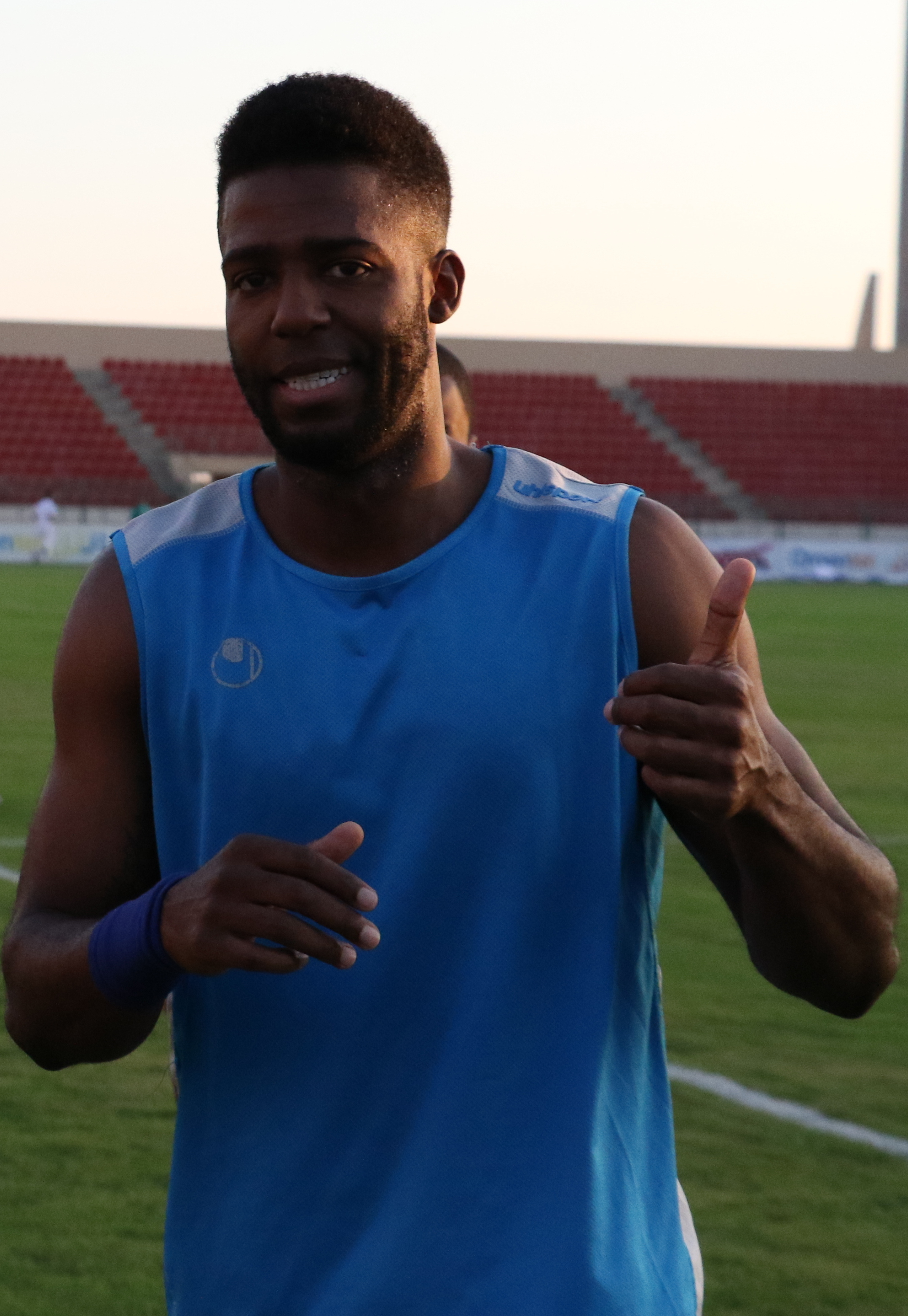 Vinícius da Silva Salles taking part in a training session with Saham in Salalah 21 March 2015 Al Saada Stadium, Salalah Photographer email id